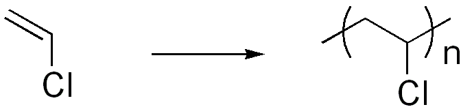 diagram showing the polymerization of vinyl chloride